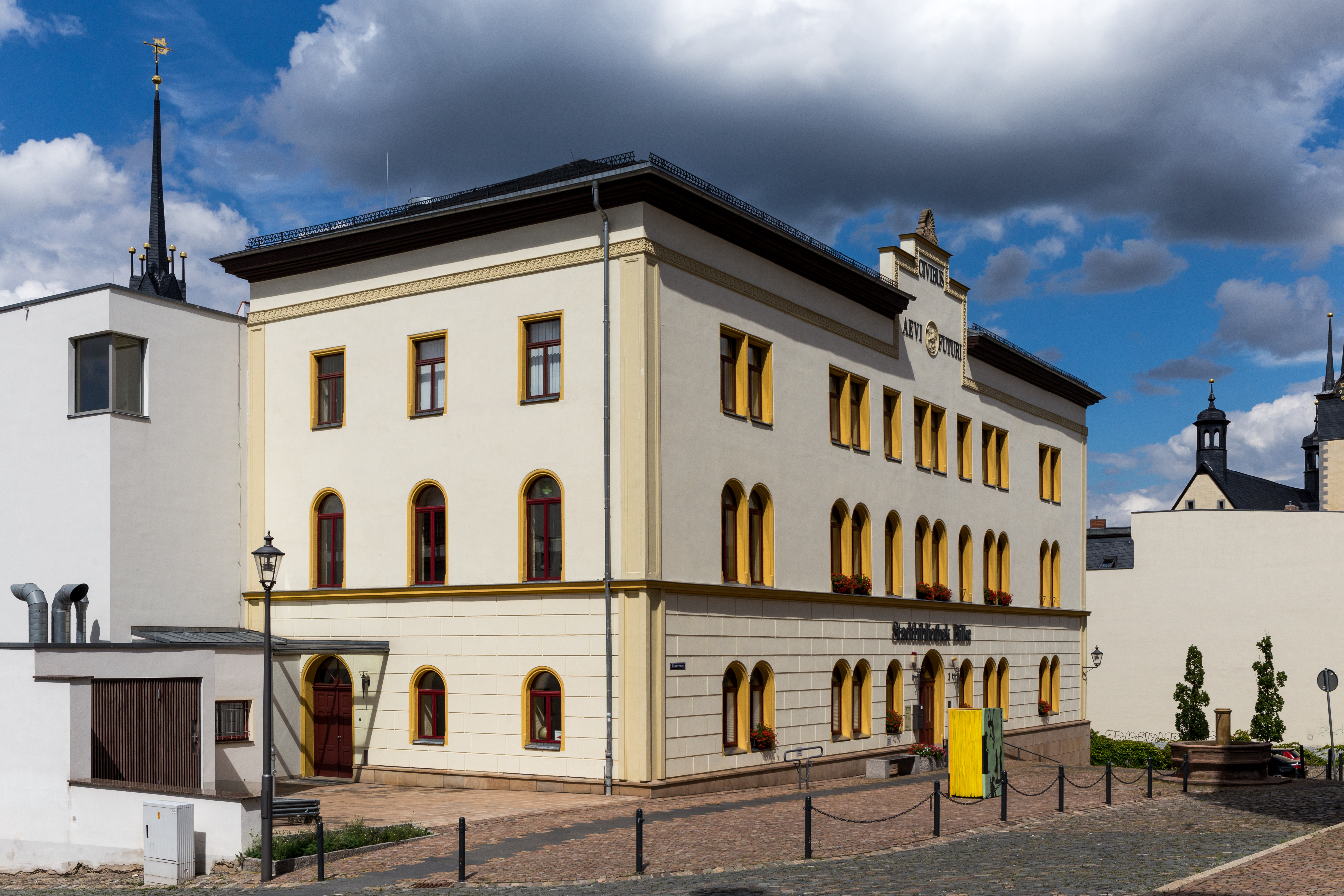 Community library "Bilke" in Pößneck, Thuringia, Germany.